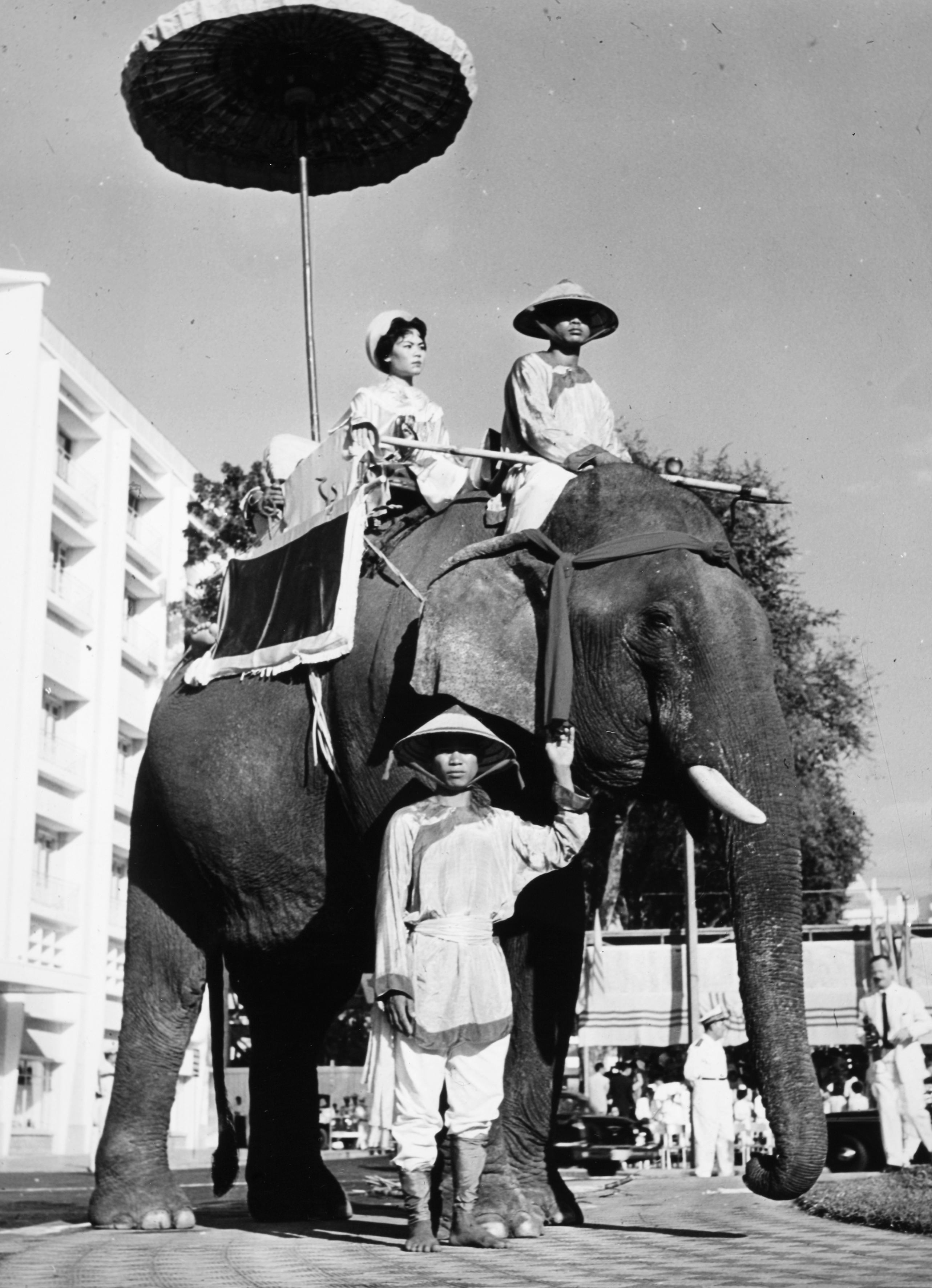 On a sunny day in Saigon, national heroines of Viet Nam are honored with a parade of elephants and floats